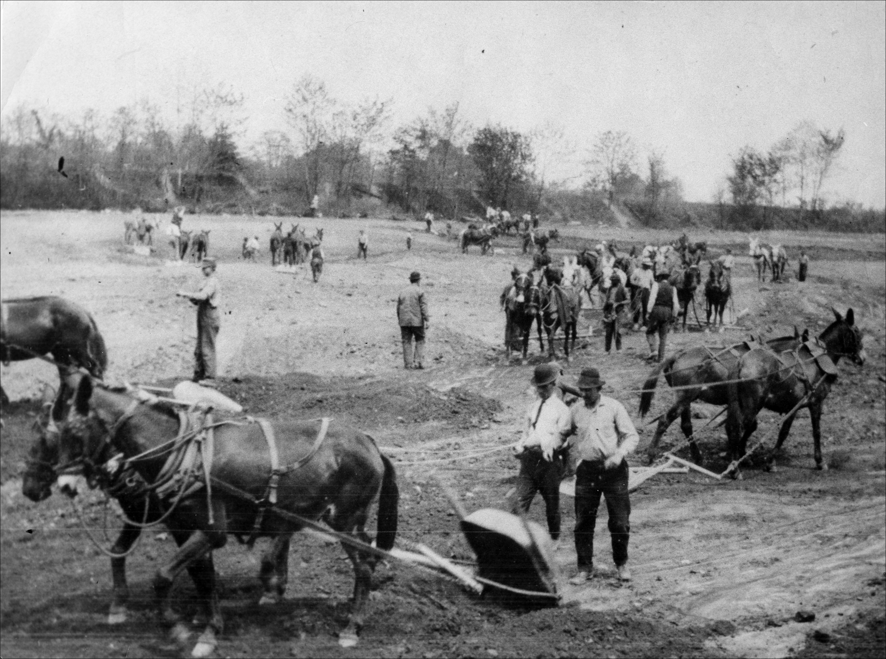 Work at Bigpool, on the Chesapeake and Ohio Canal.